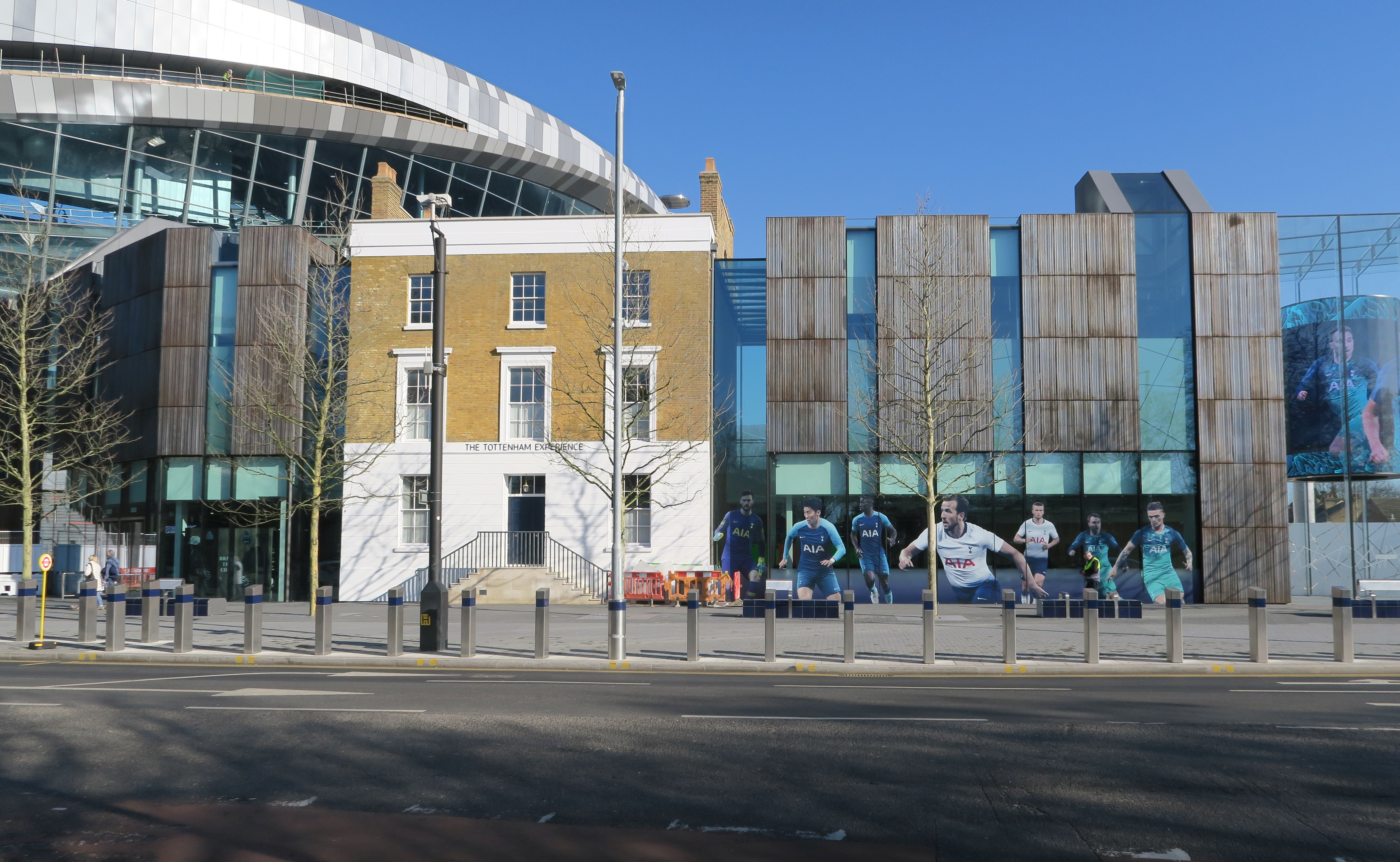 The Tottenham Experience, including club shop and museum of Tottenham Hotspur, incorporating Warmington House.